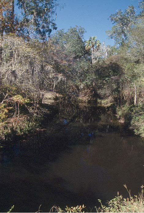 Photograph of Steinhatchee Rise in Florida